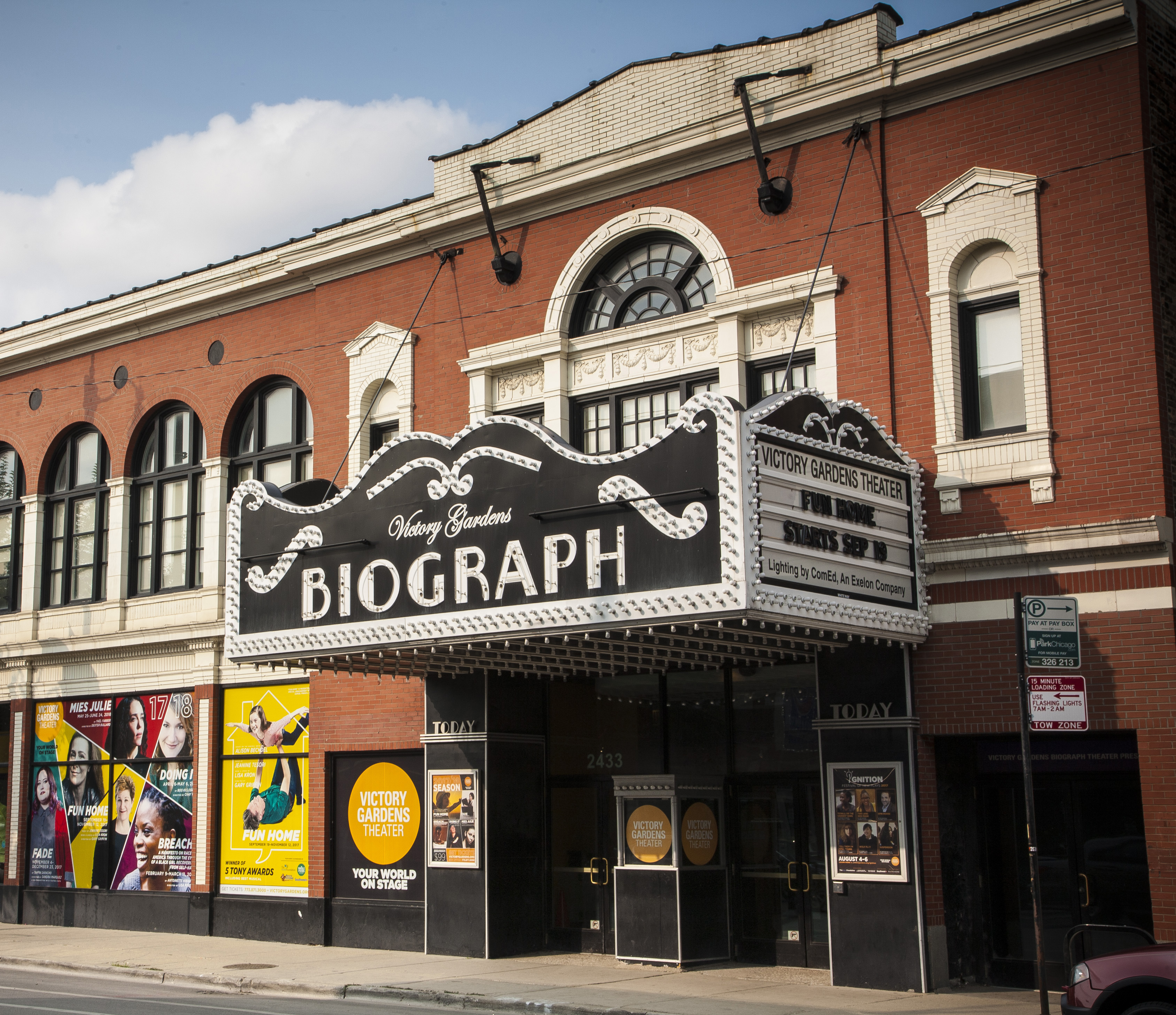 2018 photo of the theater's facade.